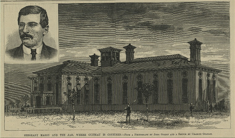 A drawing of the jail where Charles J. Guiteau (who assassinated U.S. President James A. Garfield) was confined